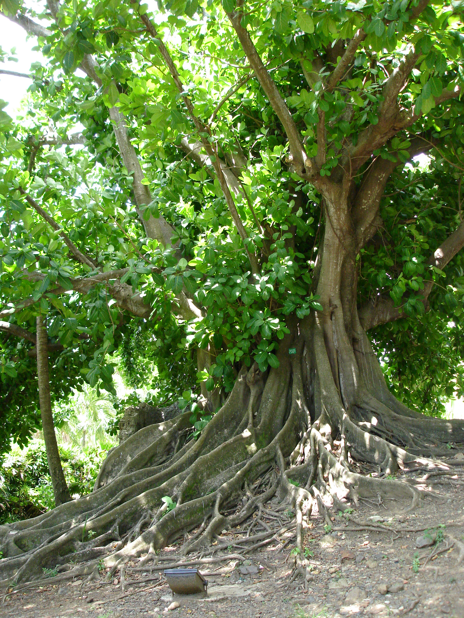 Ficus citrifolia, in Martinique, Lesser Antilles of the West Indies in the eastern Caribbean Sea.